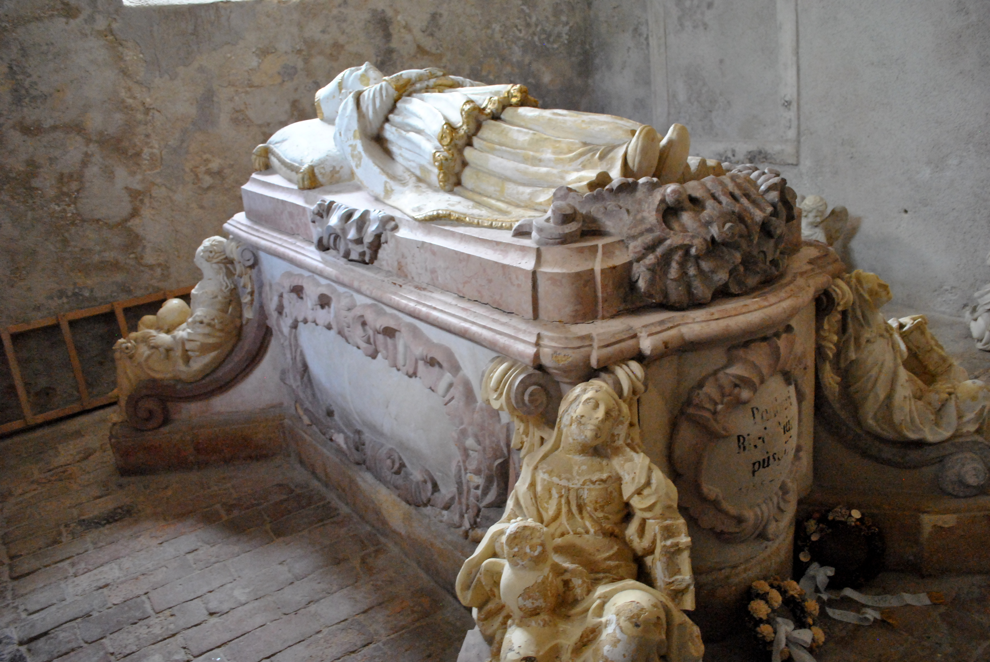 Undercroft in the Veszprém Cathedral This is a photo of a monument in Hungary, Identifier: 10682